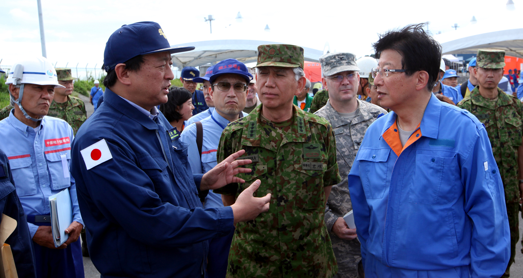 Shū Watanabe, Senior Vice-Minister for Defense, Eiji Kimizuka, Chief of Staff of the Ground Self-Defense Force, and Heita Kawakatsu, Governor of Shizuoka Prefecture, discussed plans for conducting humanitarian assistance and disaster relief operations during the "Shizuoka Disaster Drill" at the Shizuoka Airport in Shizuoka Prefecture on September 2, 2012.